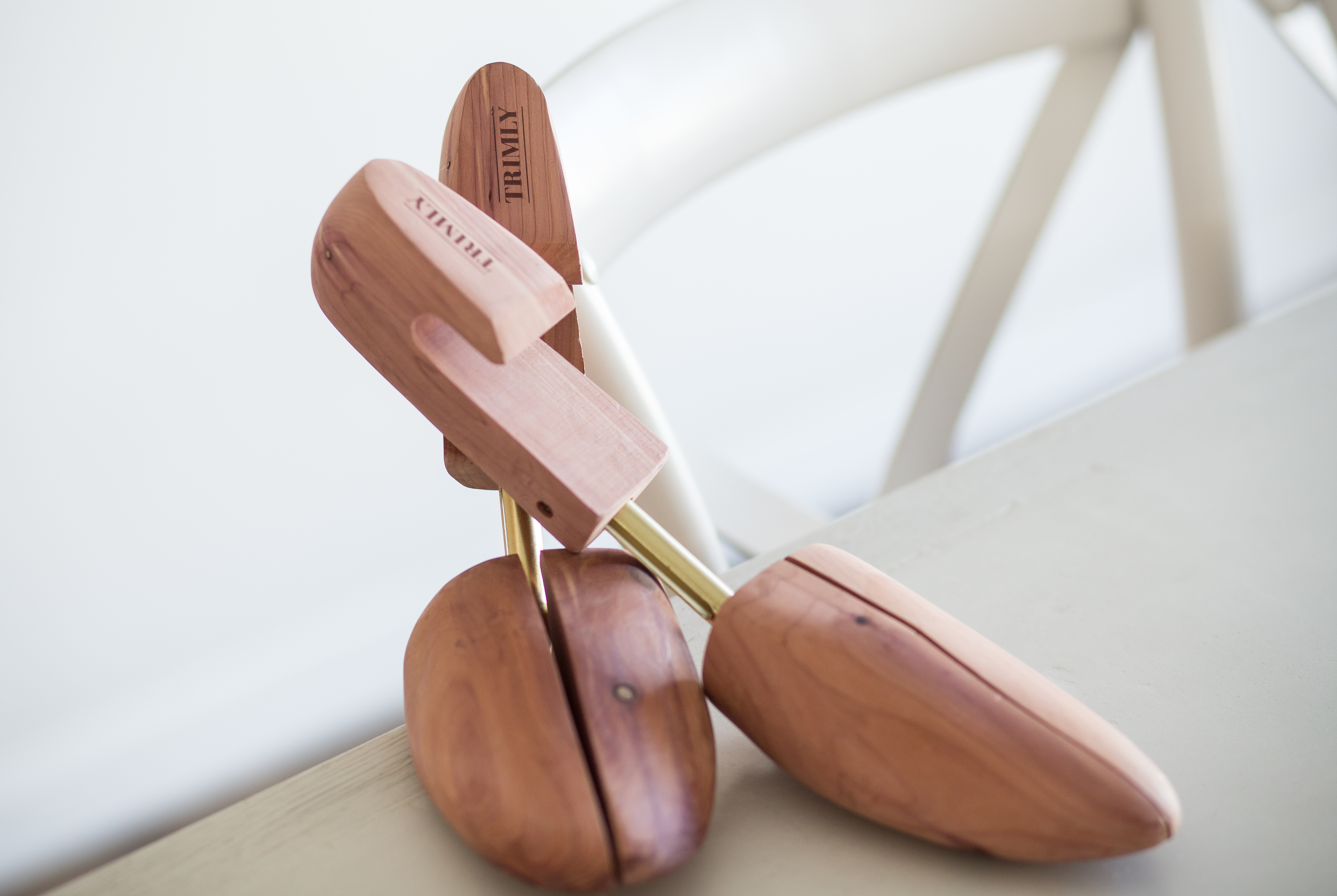 The generic Split Toe Shoe Tree popular with U.S. customers